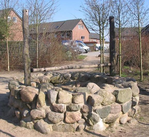 Reconstructed water well from Damsdorf (deserted mediaeval town and predecessor colony of Ludwigsfelde), built about 1240. Ludwigsfelde is a town in the district Teltow-Fläming, state Brandenburg, Germany.)